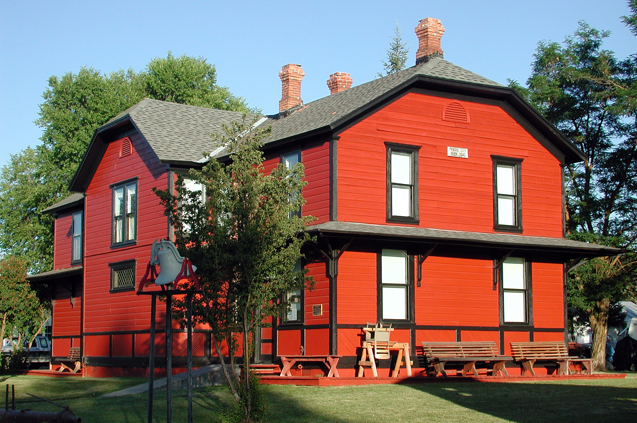 The DeWitt Museum in Prairie City, Oregon, was originally a passenger station on the Sumpter Valley Railway between Baker, Oregon, and Prairie City.